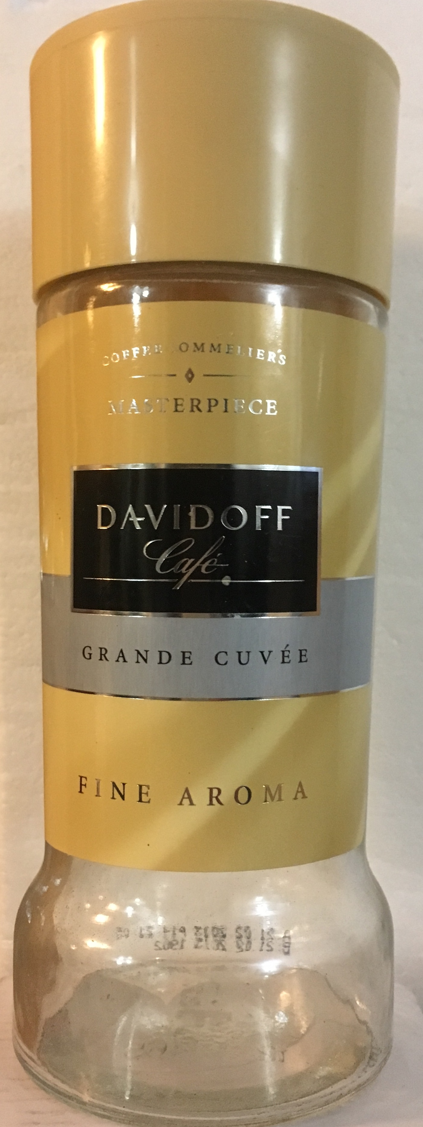 Empty bottle of Davidoff instant coffee